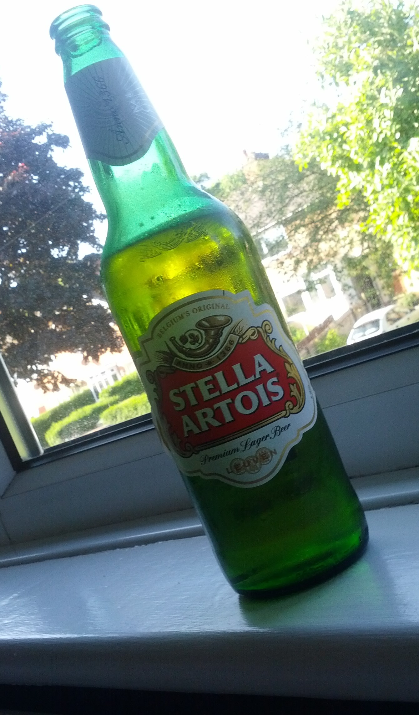 A opened green bottle of Stella Artois larger (beer), partially consumed.